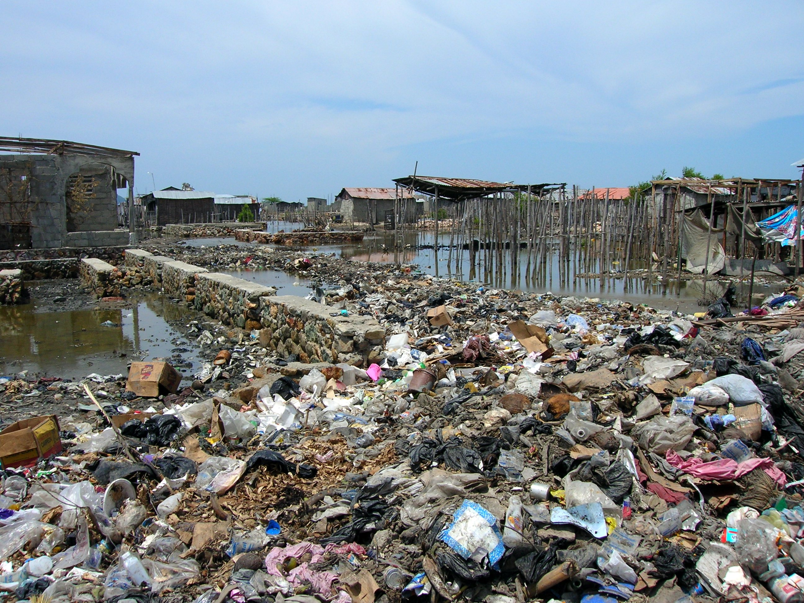 Solid waste has been bought by the inhabitants of Petite Anse (Cap-Haitien, Haiti) to create a road and "soil", after it has decomposed.